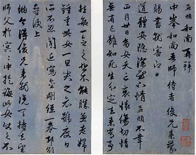 Epistle to Zhongfeng Mingben (与中峰明本尺牘, yochūhō myōhon sekitoku). One of six letters, ink on paper. Located at the Seikadō Bunko Art Museum, Tokyo. The documents have been designated as National Treasure of Japan in the category ancient documents.